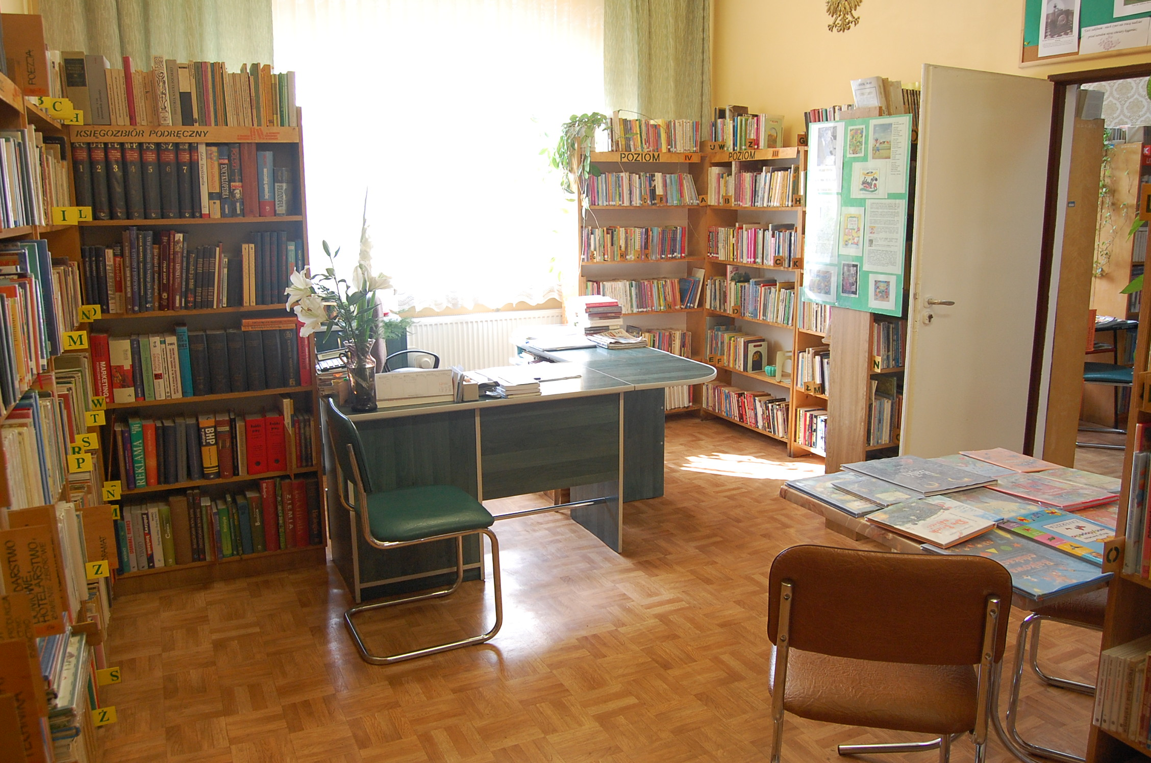 Public Library in Konopnica Kozubszczyzna (inside)